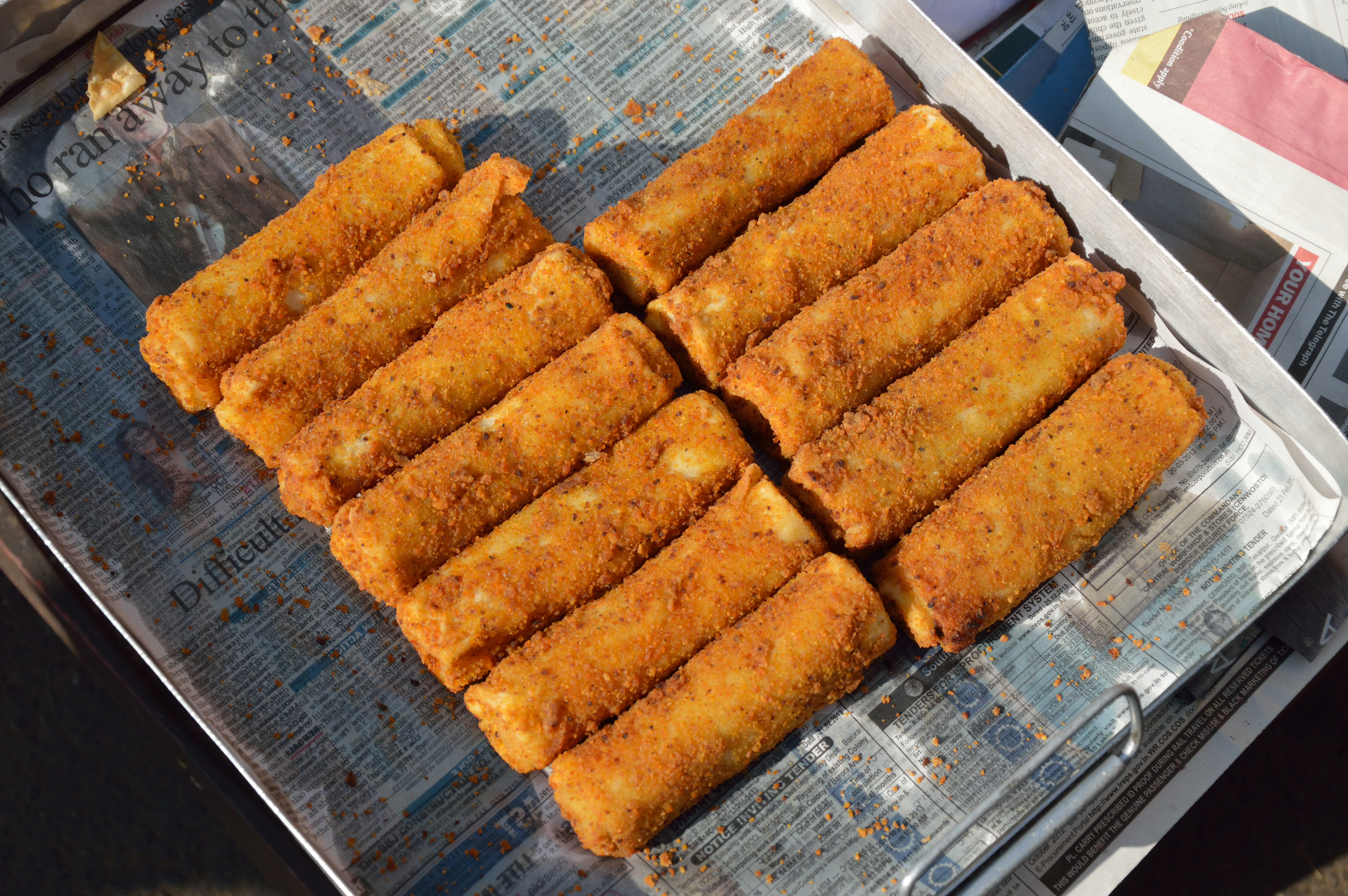 This photograph has been taken during the 'Wikipedia/Wikimedia Photowalk' event for the 'Wikipedia Takes Kolkata II' campaign on 3 March 2013, in Kolkata.